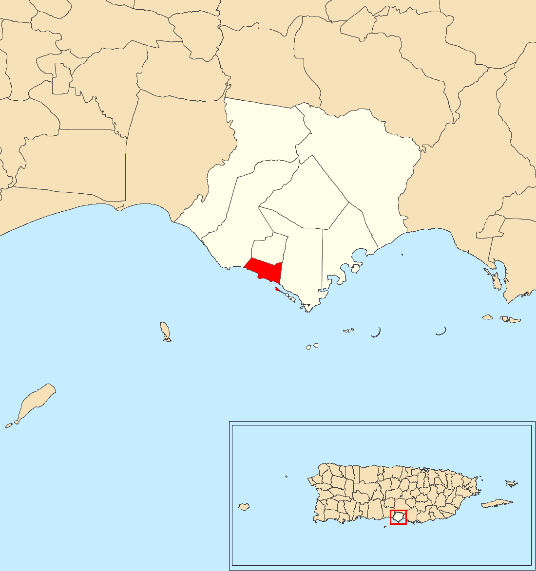 Playa, Santa Isabel, Puerto Rico locator map